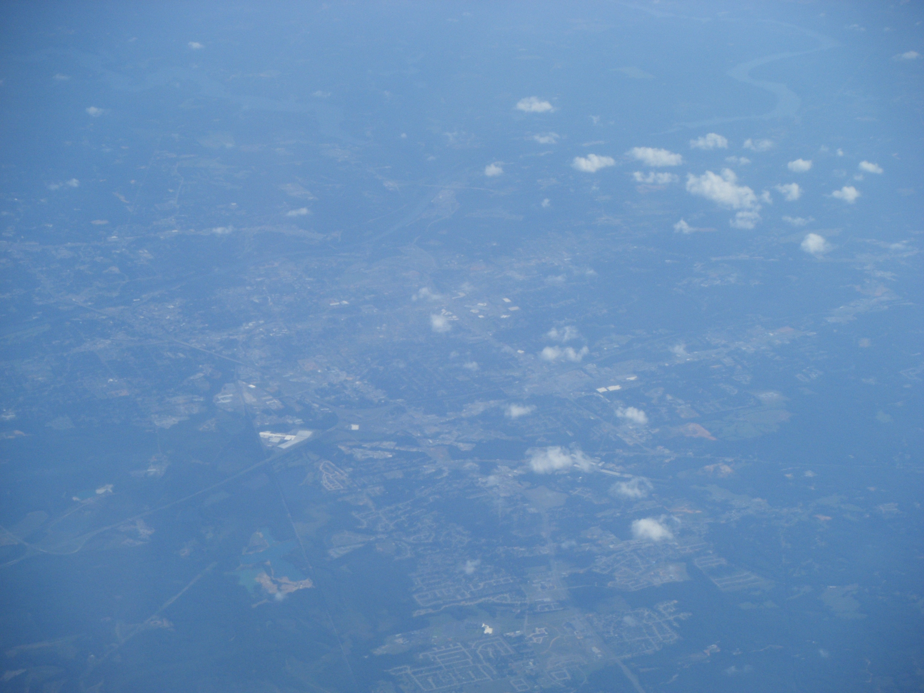 A view of Tuscaloosa, Alabama taken from an airplane